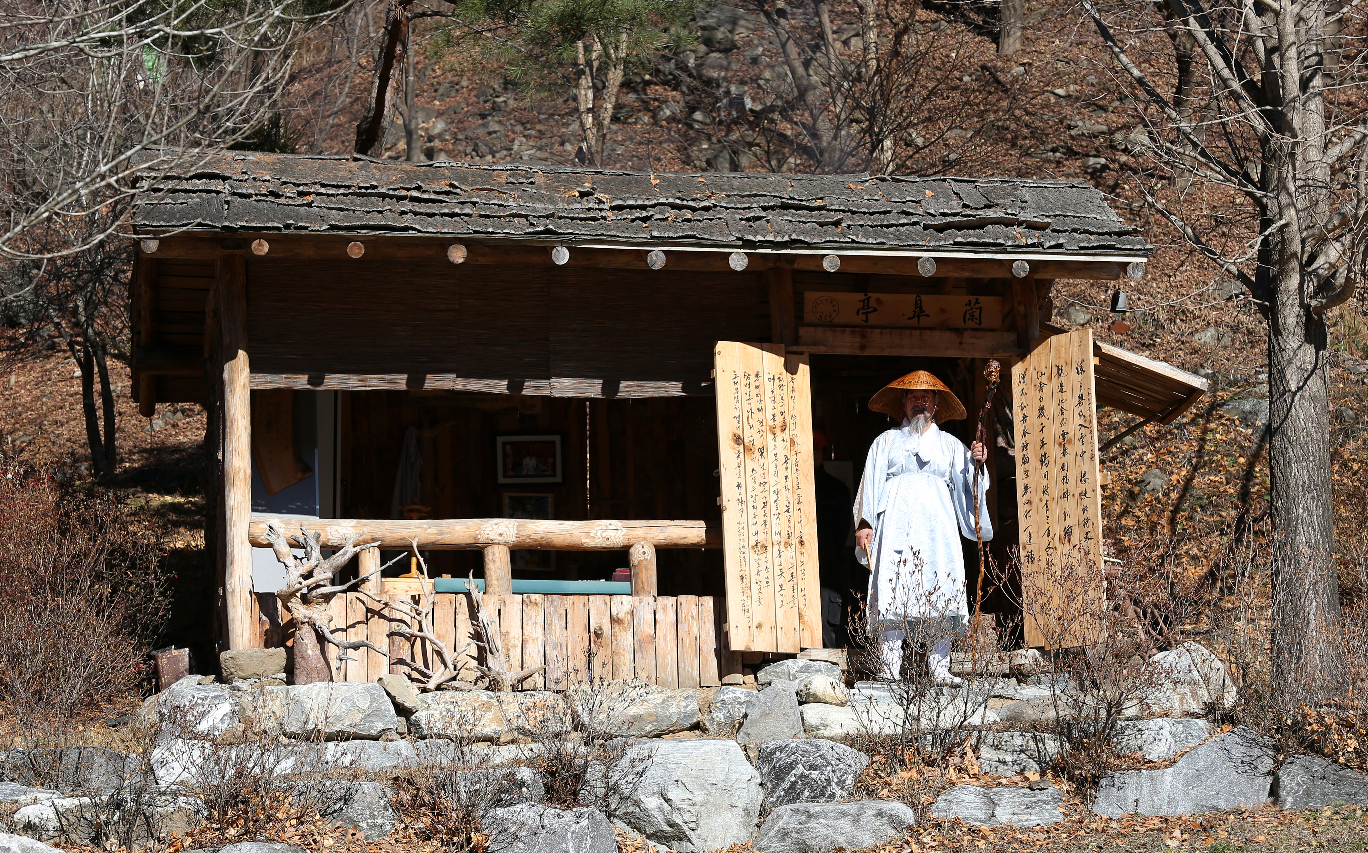 Photographic Sketch in Yeongwol-Gun, Gangwon-do The Graveyard of Kimsatgat (The Wandering Poet in Joseon Period) 2012.11.27. Ministry of Culture, Sports, and Tourism, Korean Culture and Information Service, , Jeon Han 김삿갓 유적지 조선후기 방랑시인, 난고(蘭皐) 김삿갓(본명 병연, 1807-1863)의 묘소 강원도 영월군 문화체육관광부 해외문화홍보원 코리아넷 전한